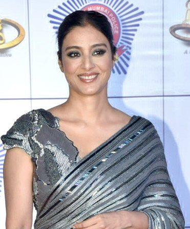 Actress Tabu in Umang 2020